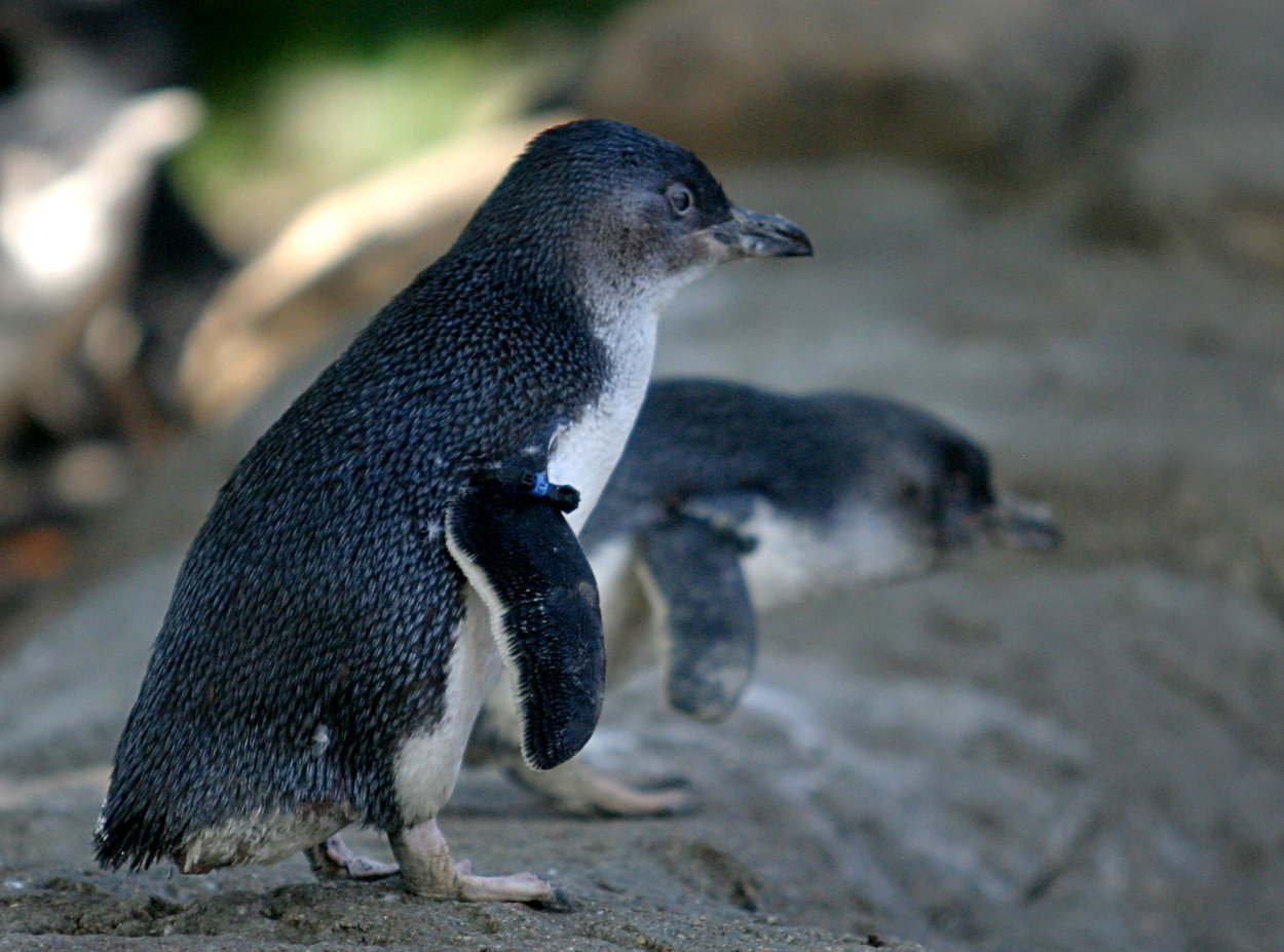 Little Penguin at the Henry Doorly Zoo in Omaha, Nebraska.